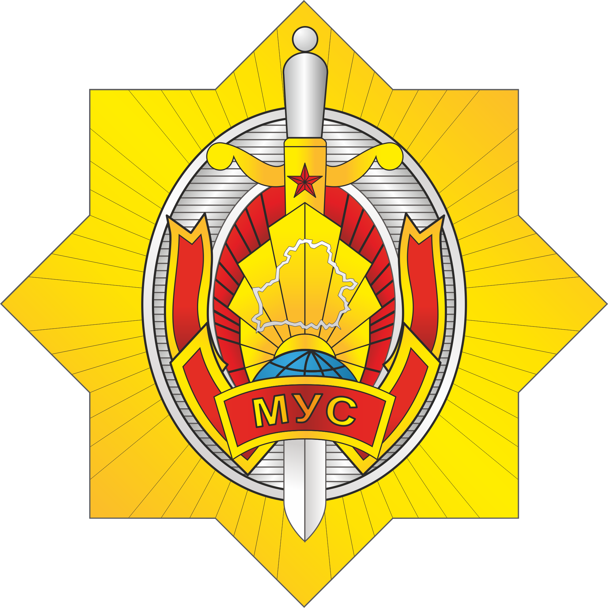 Logo or emblem of the police (militia) of the Republic of Belarus.